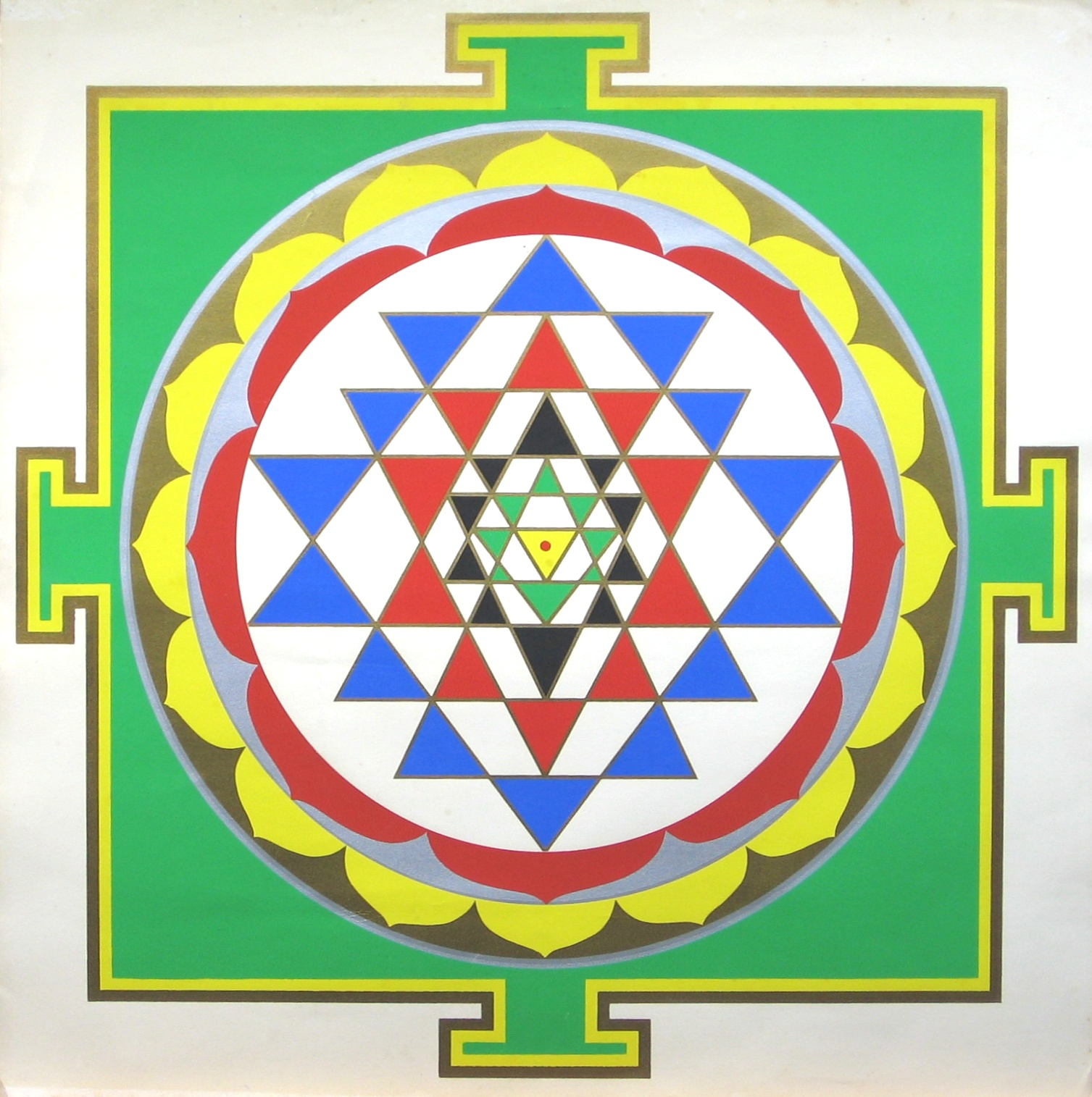 Sri Yantra with correct traditional colors according to Harish Johari. The artwork is a silkscreen print made in 1974 at the Tantra Research Institute in Oakland, California.